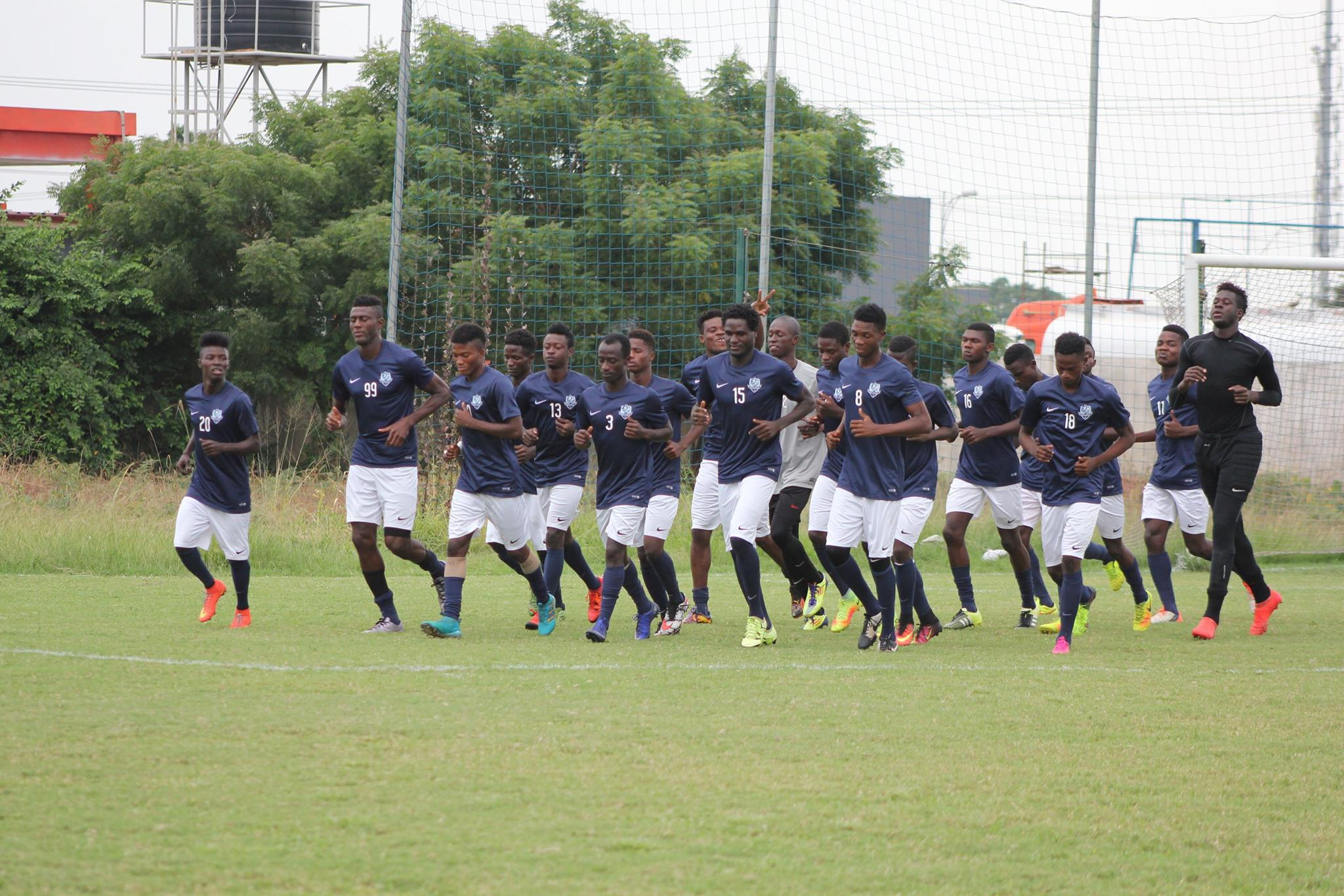 ALFC training at the Presec park in Accra-Legon